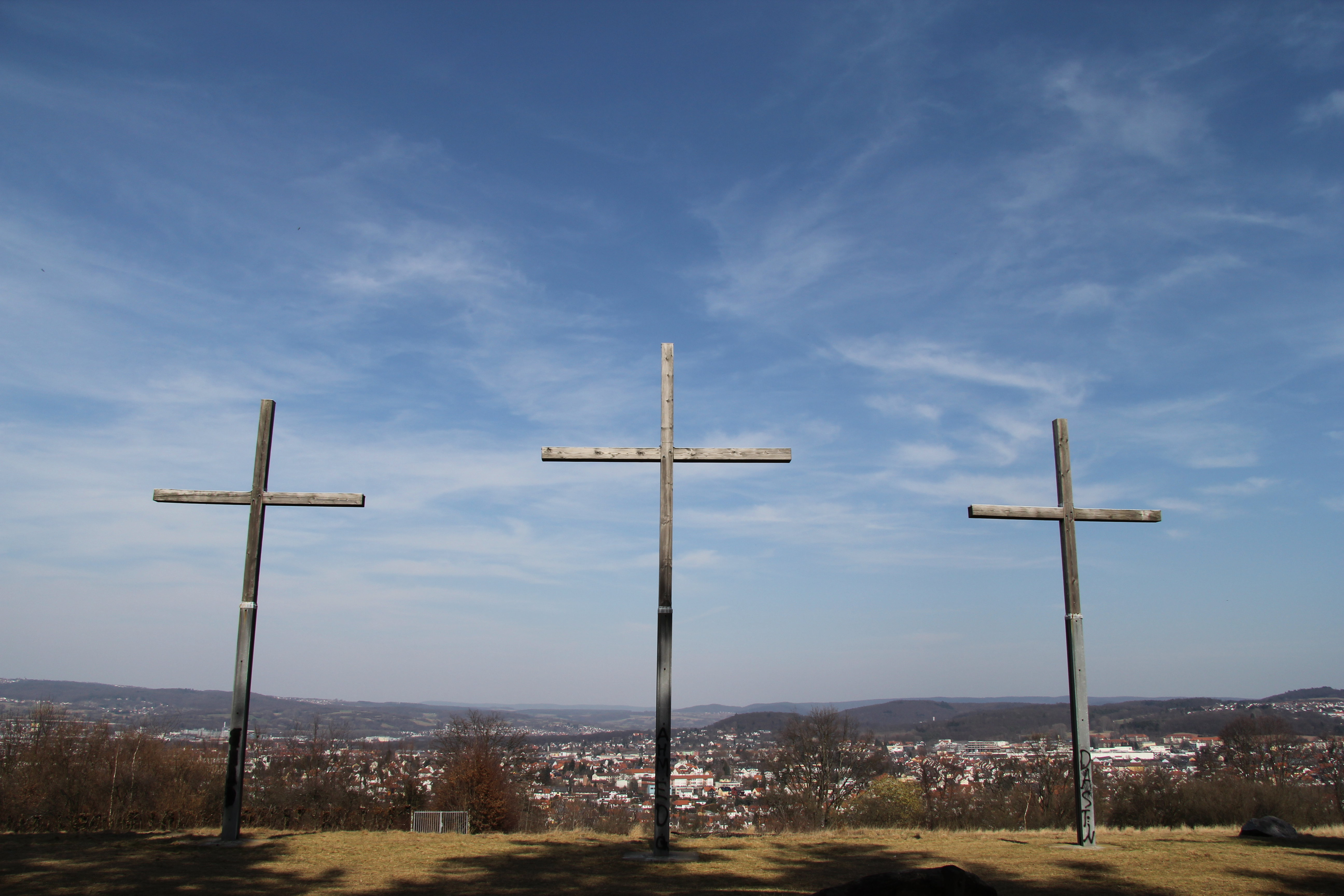 "Three Crosses" on Sternberg hill above Schweinheim (Aschaffenburg), Lower Franconia, Bavaria, Germany